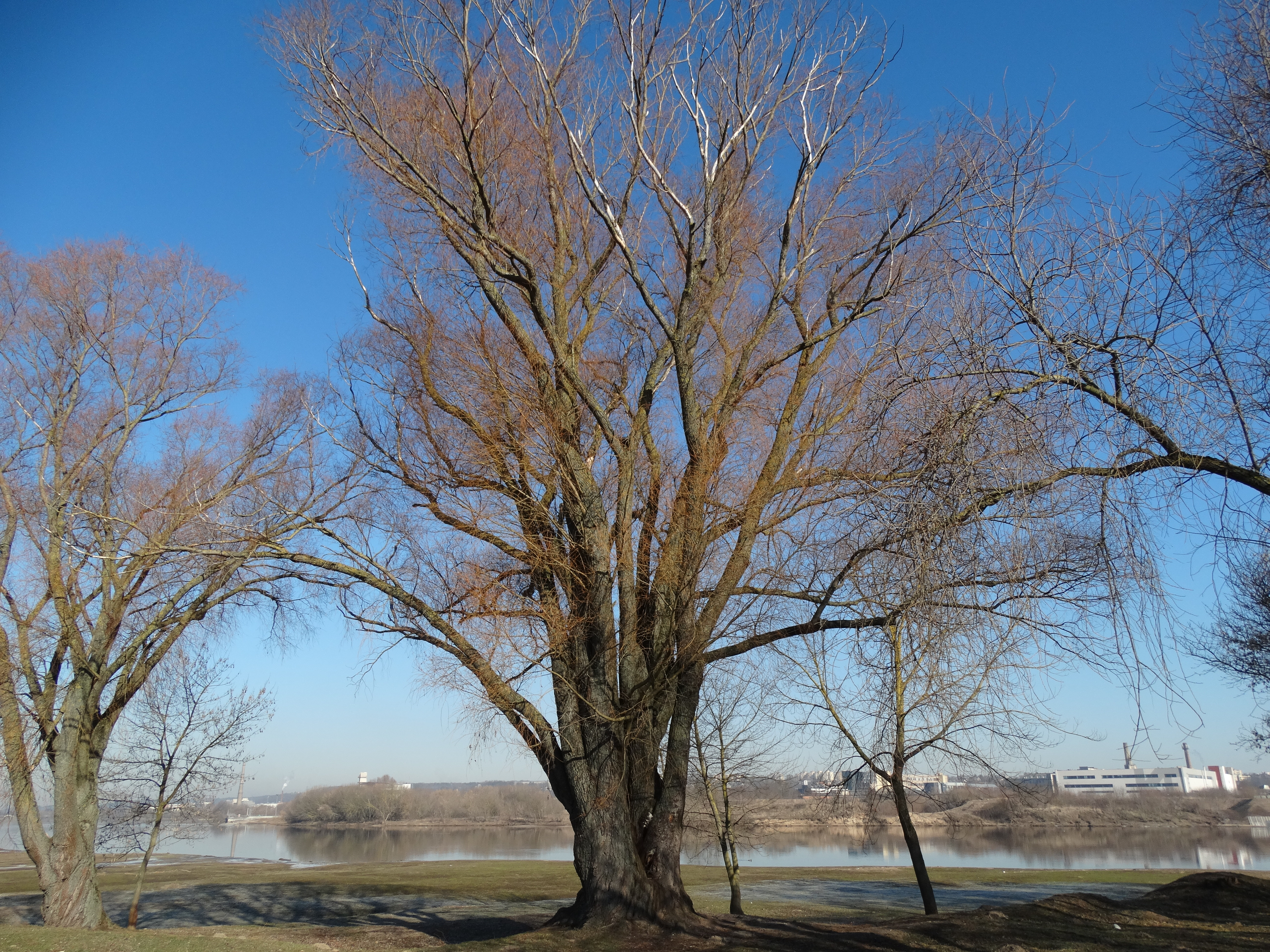 Golden willow (Salix alba var. vitellina), Kaunas, Lithuania